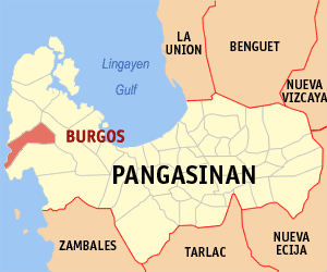 Map of Pangasinan showing the location of Burgos